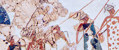 Boar tusks helmets are wear by the warriors depicted in the fresco fragment from Akrotiri in Thera island.